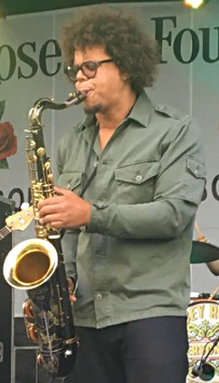 Jake Clemons performing at the 2017 Abbey Road on the River Beatles festival. Photo by me.